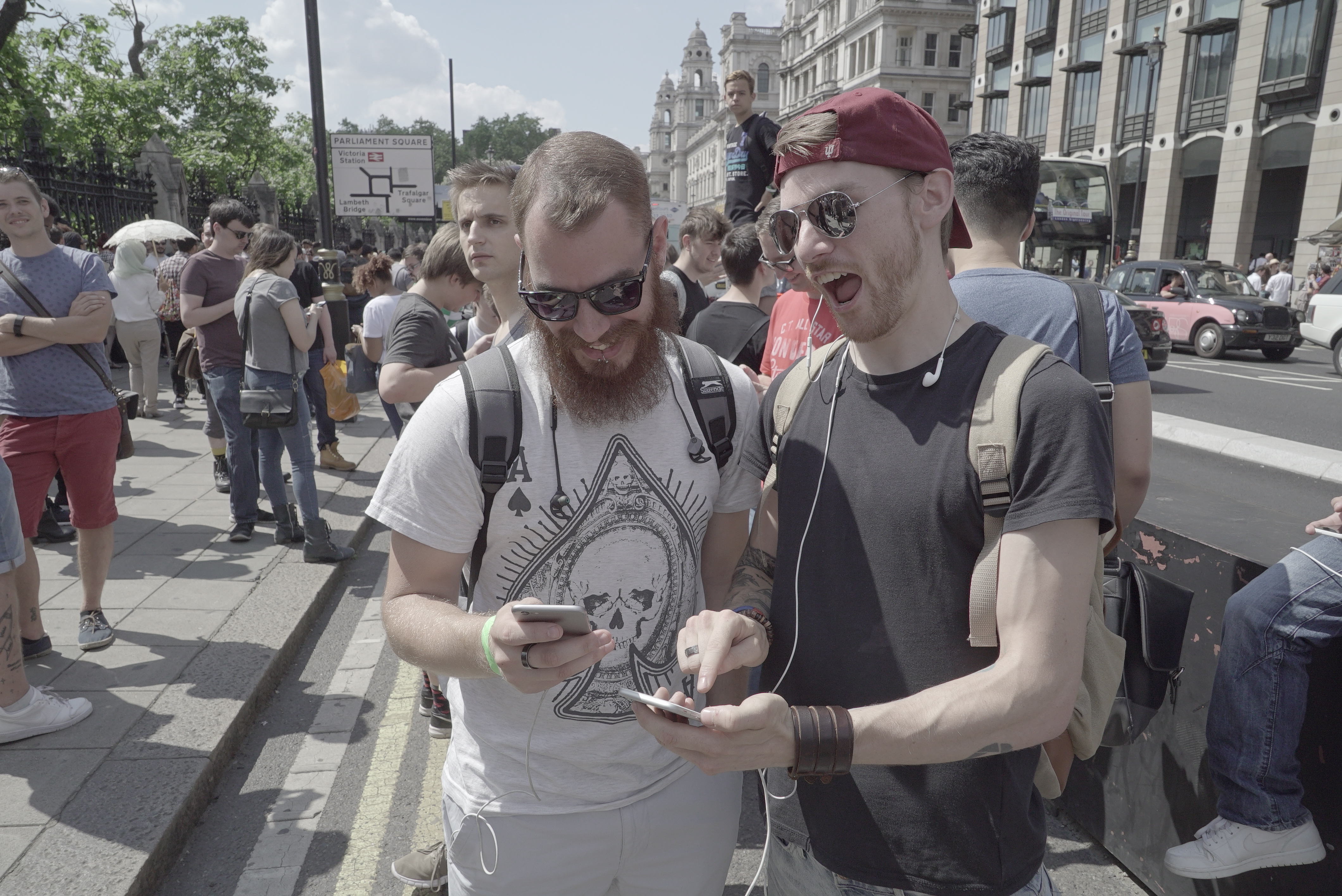 Participants in the Pokémon GO public event in London